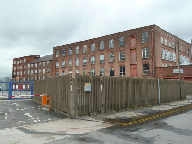 Bolton University - former textile mills